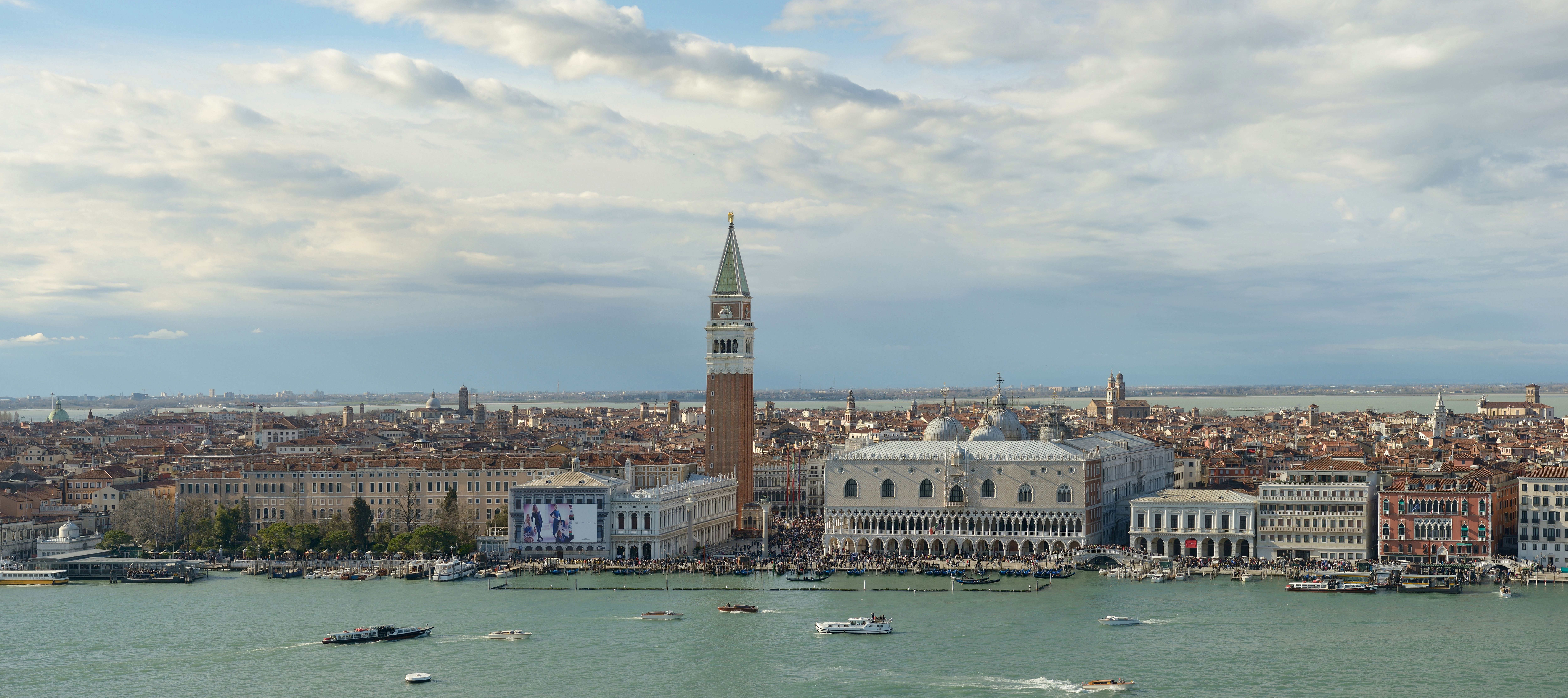 Piazza San Marco and Venice on Easter 2013. View from the belltower of the Basilica di San Giorgio Maggiore